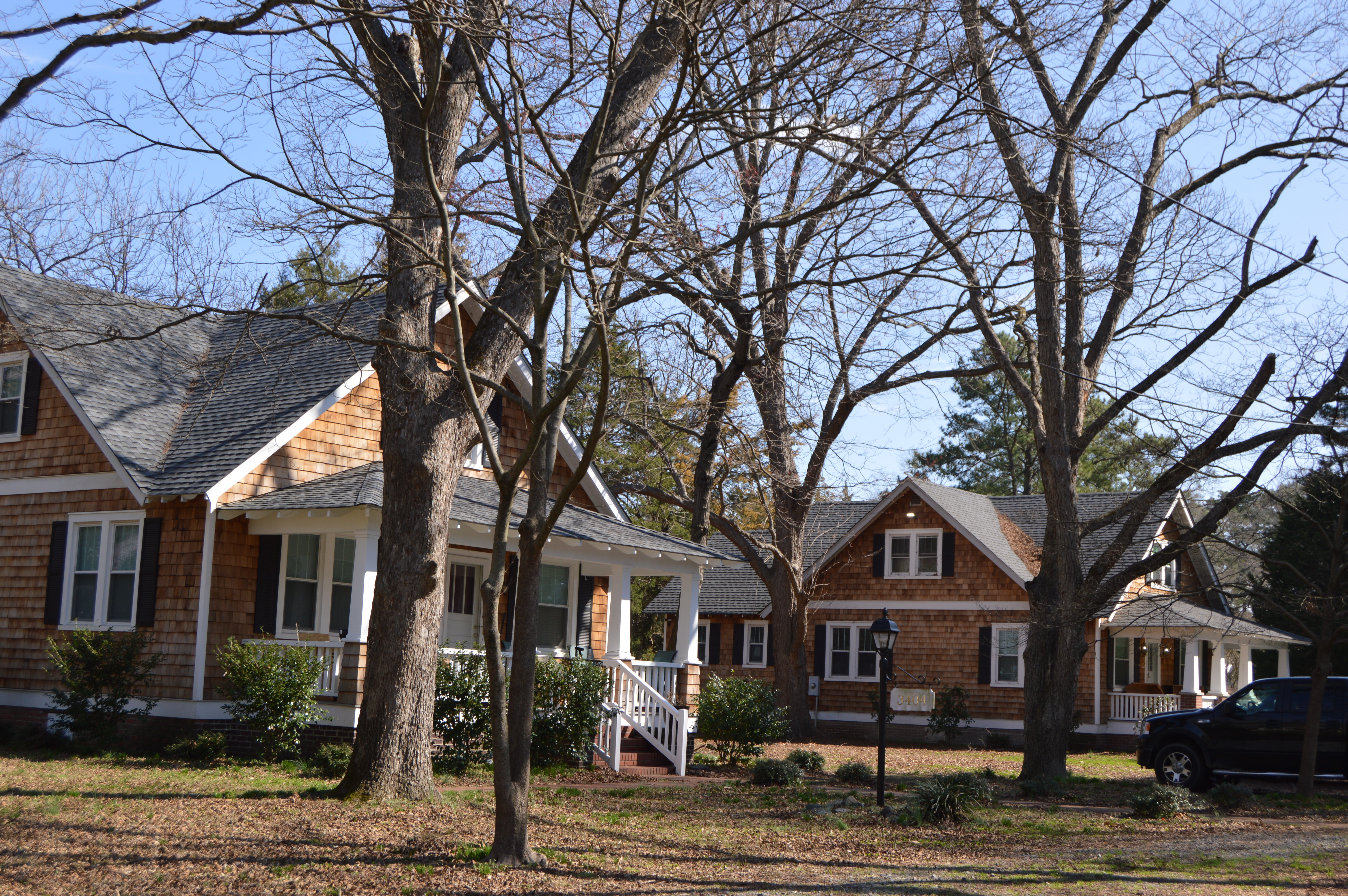 Houses on Seneca Avenue in Chesapeake, Virginia, United States. This block is part of the Oaklette Historic District, a historic district that is listed on the National Register of Historic Places.